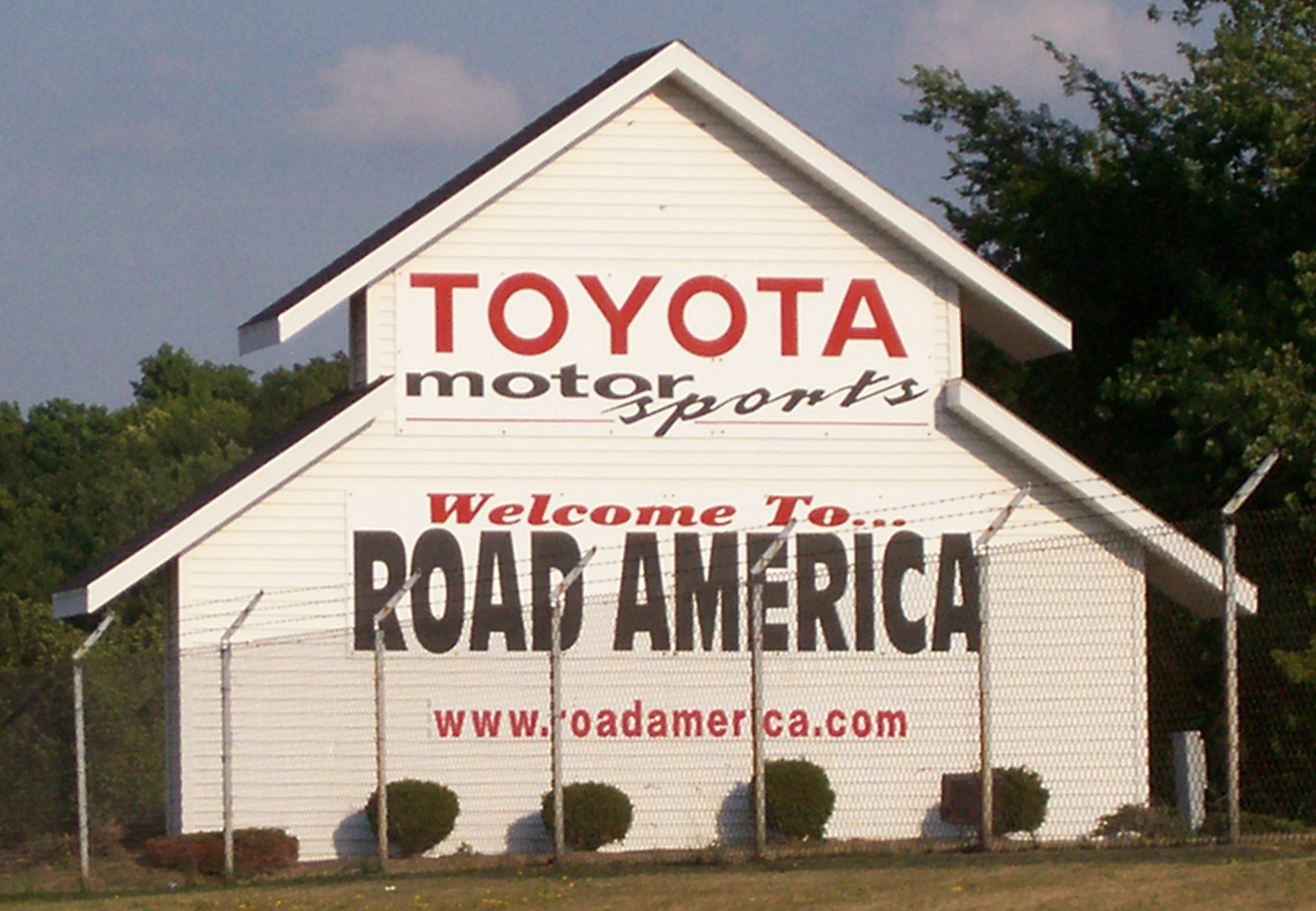 The sign for Road America racetrack on Wisconsin Highway 67.